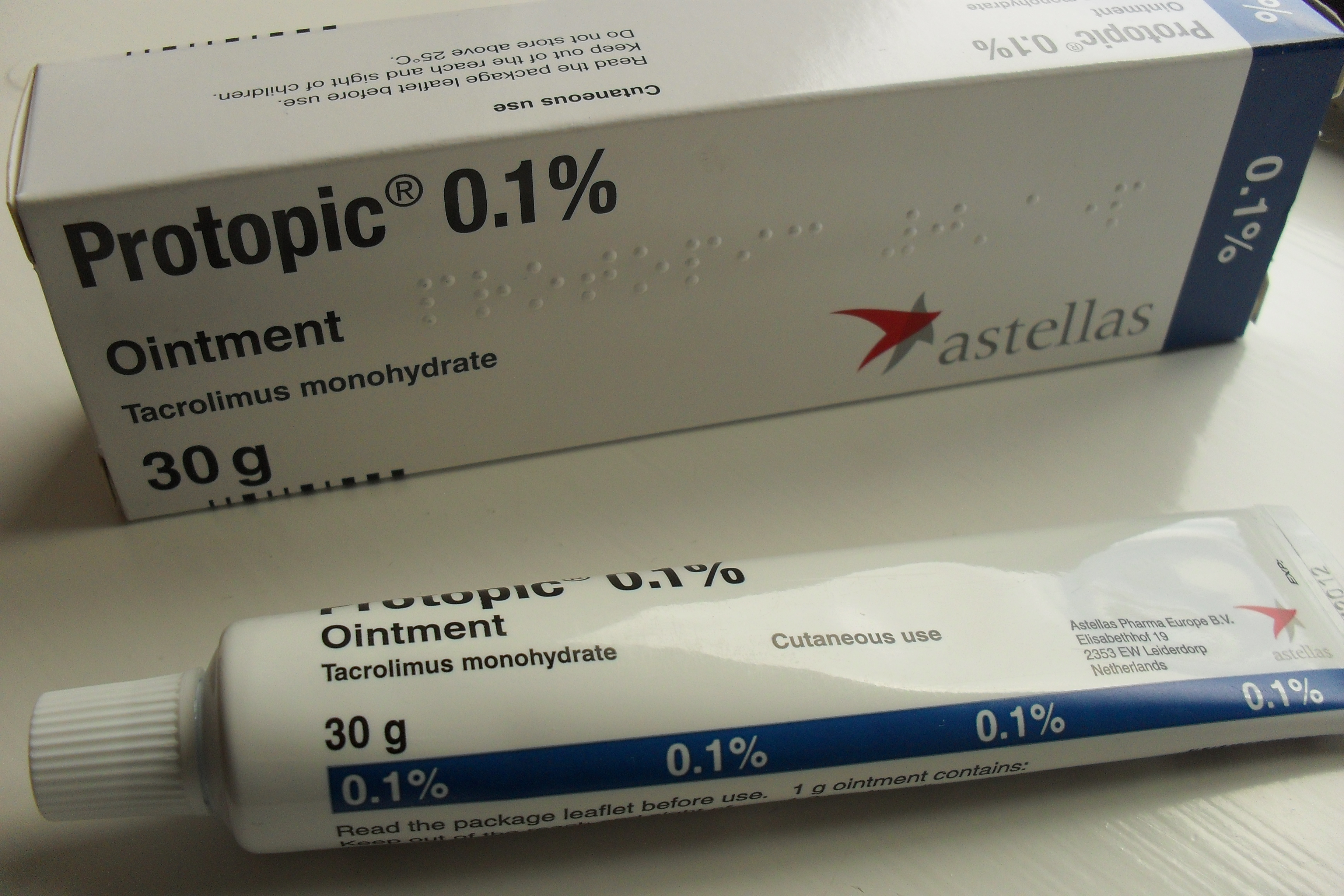 Protopic 0.1%